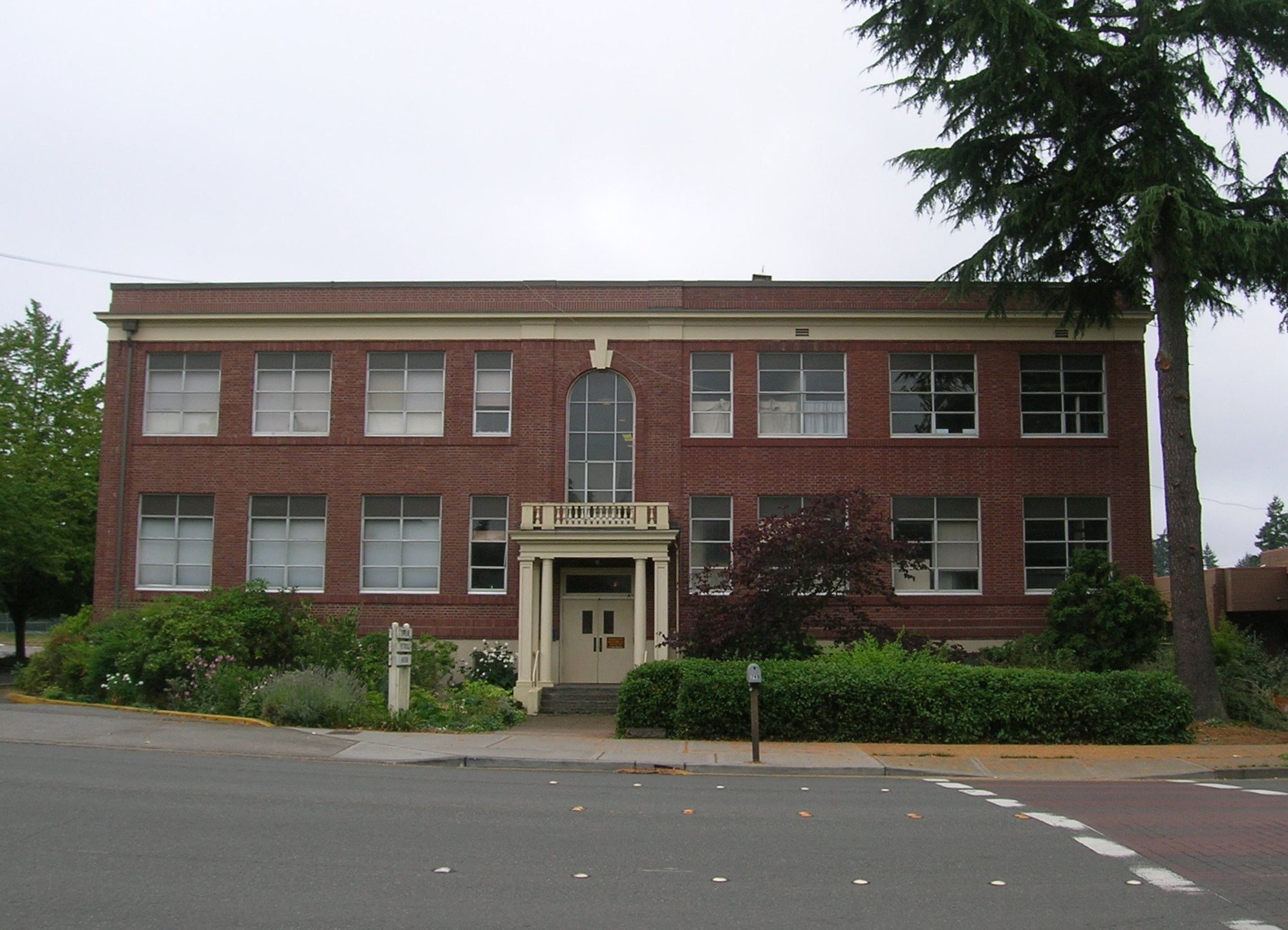 The Ronald School, now part of Shorewood High School. North facade.